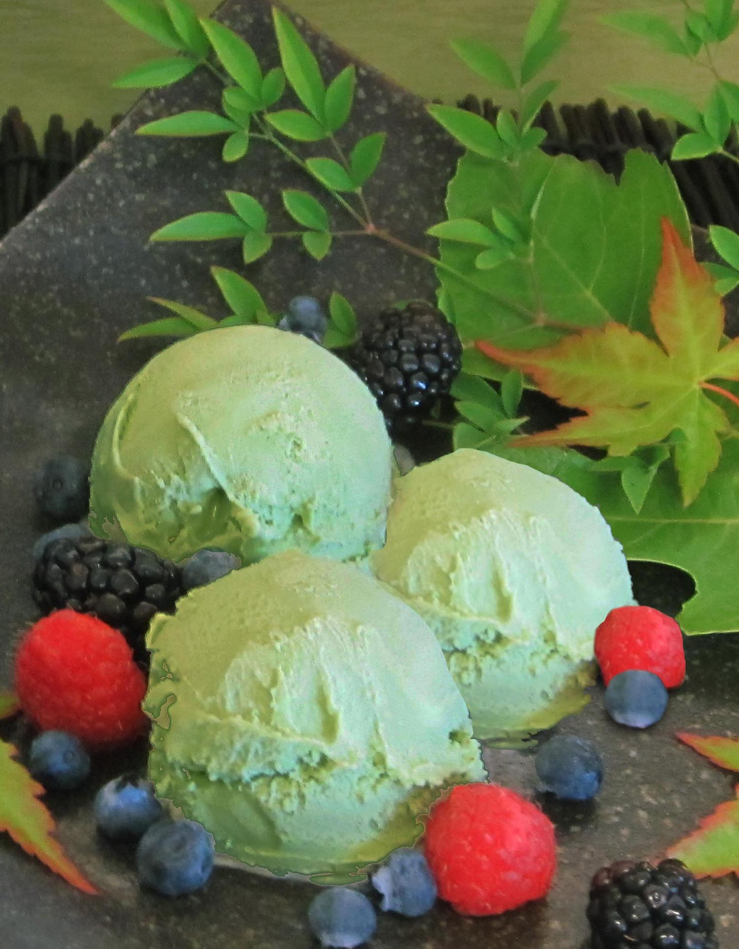 Green tea ice cream decoration sample